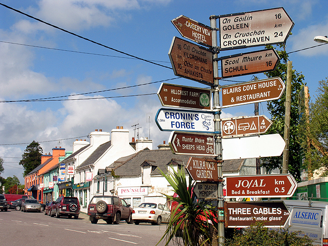 The Problem with Irish Road Signs! Hhhmmm, which way. The approach decision making when confronted with signs like this, of which there are many, is to park and get out, scrutinise the signs, decide and then move on. This picture was taken from the Post Office building on the edge of the square looking north east towards the sign.